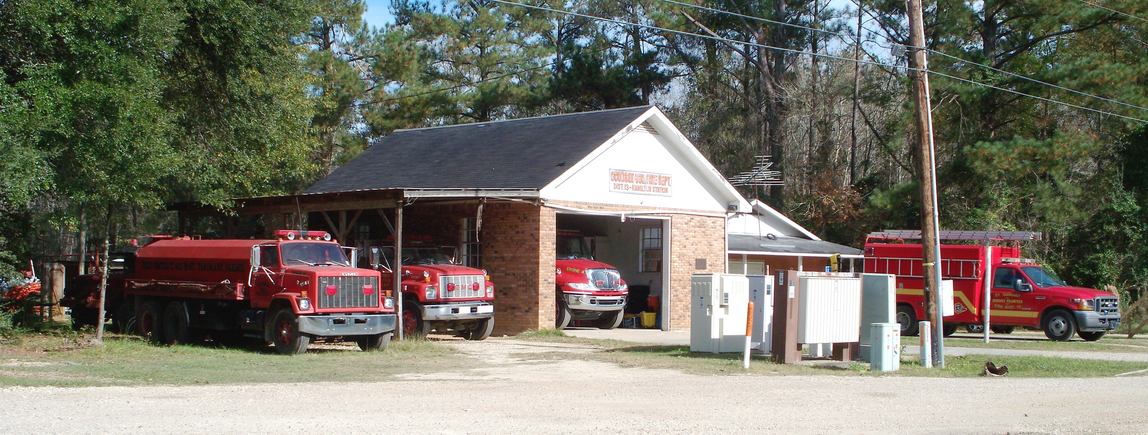 Goodbee Volunteer Fire House, Hamilton Station Number 13